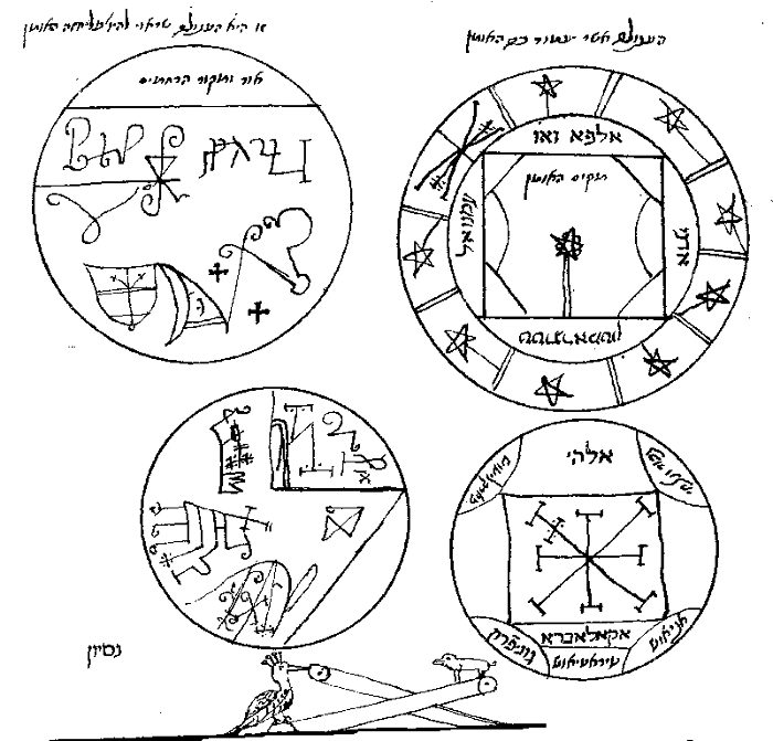 Clavicula Salomonis manuscript, British Library, Oriental MS 14759, fol. 35a